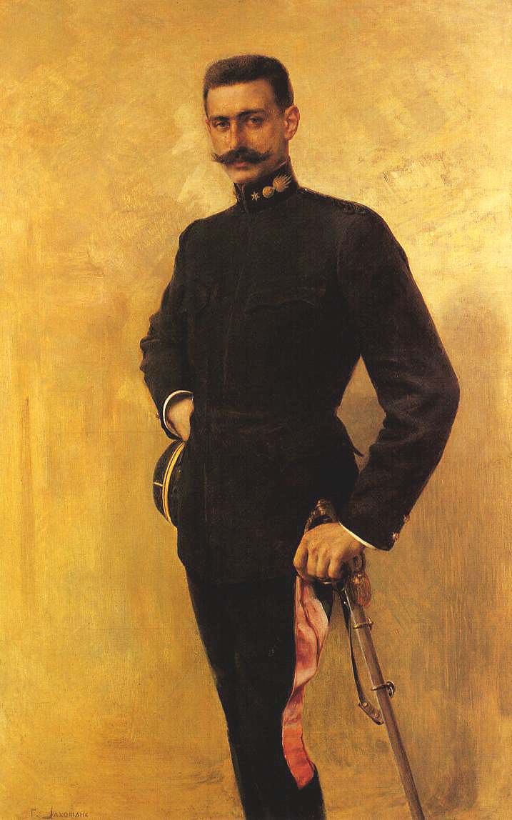 Portrait of the leader of Macedonian Struggle Pavlos Melas in the uniform of a Hellenic Army Lieutenant of Artillery.